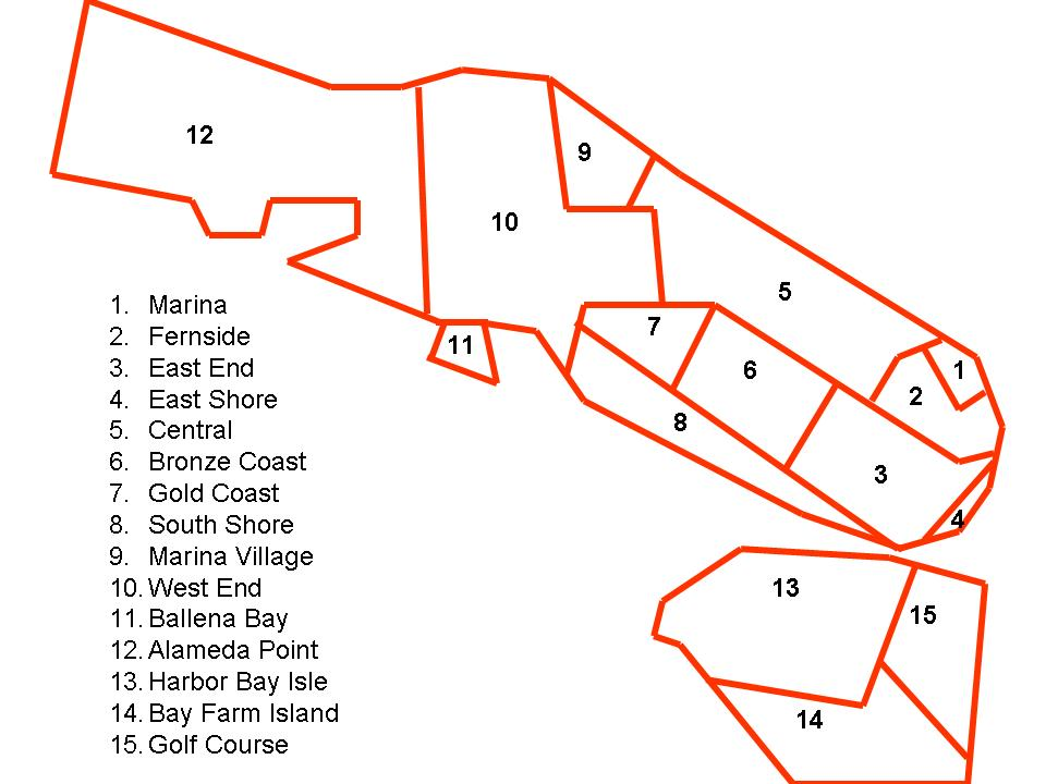 Map of the neighborhoods of Alameda, in Alameda County, California.